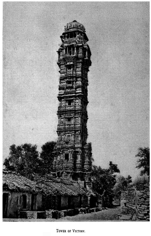 Victory Tower, India, Chittorgarh, Rajasthan